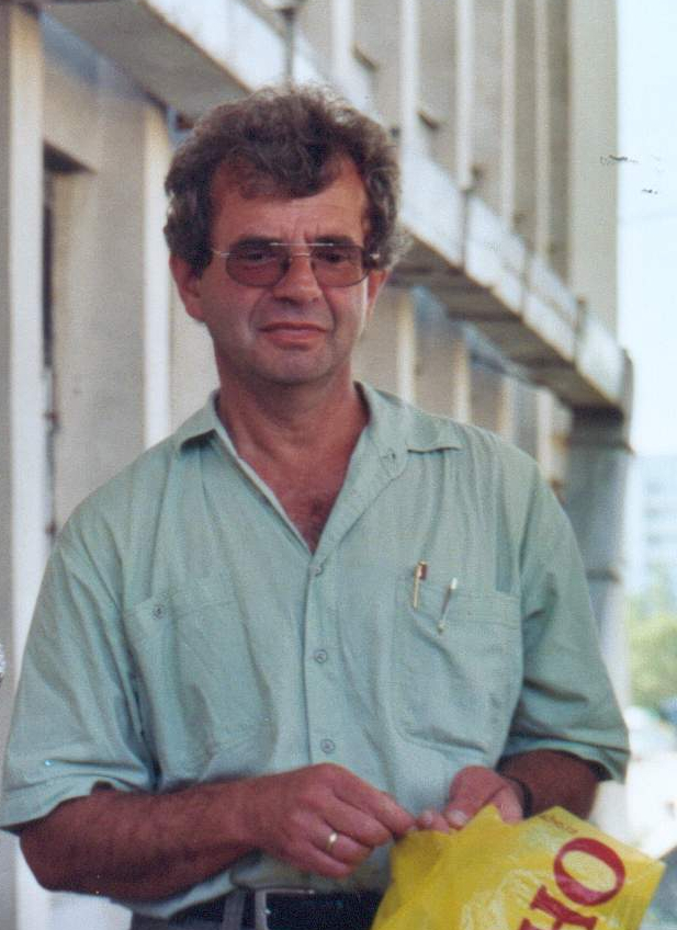 Historian Prof. Dr. Frank Golczewski (Hamburg University) during a study trip with students in Vitebsk (Belarus').